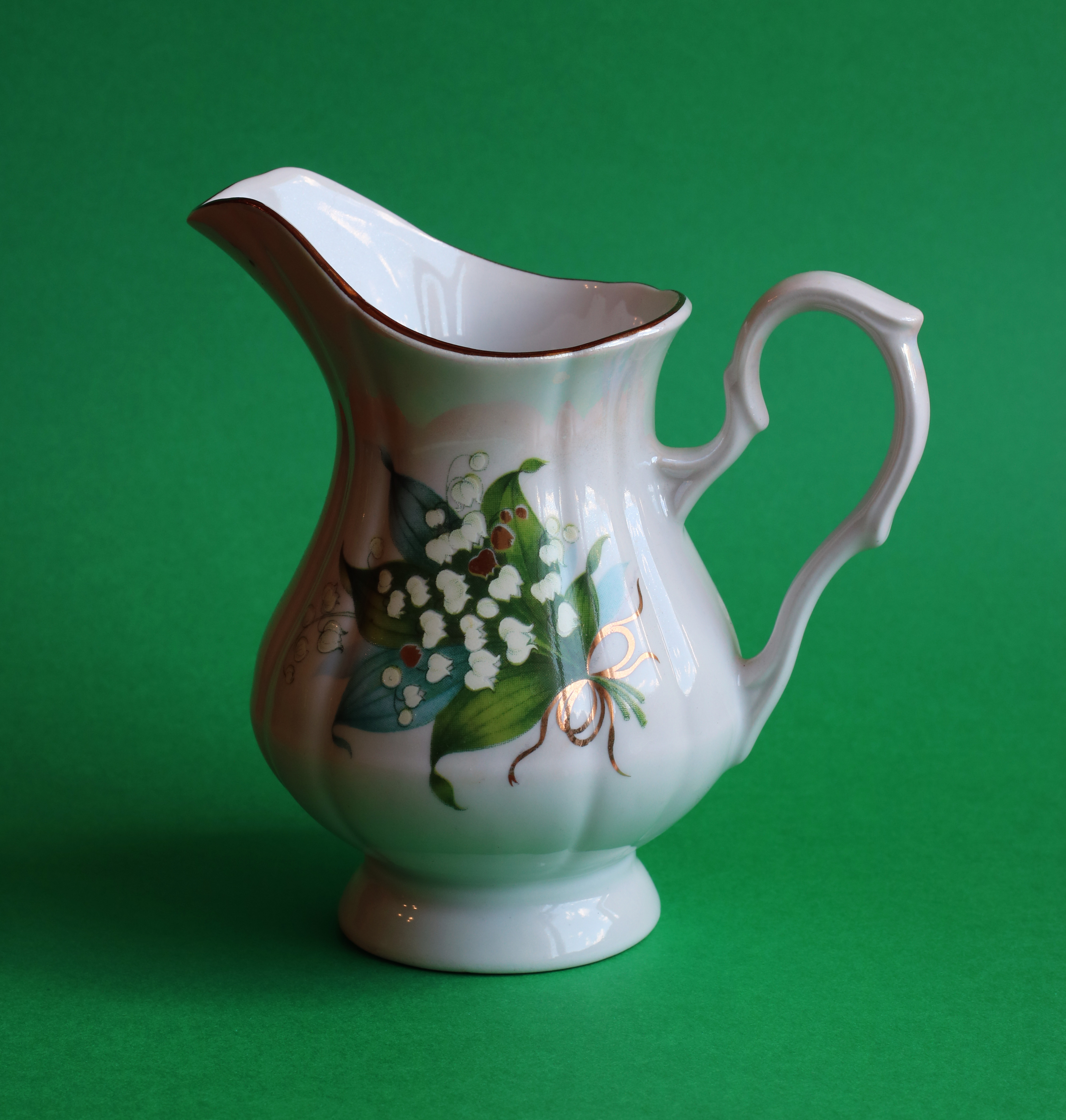 A Porcelain jug. Production of the Korosten porcelain plant (1909—2012).